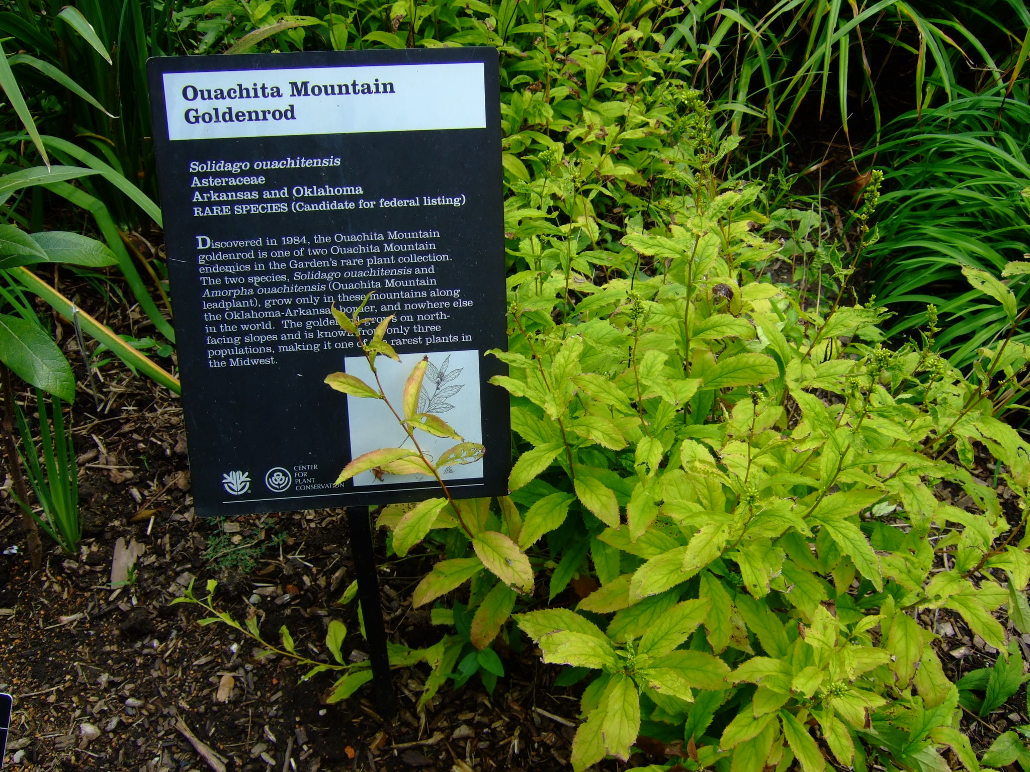 Ouchita Mountain goldenrod, Solidago ouachitensis, growing at the Missouri Botanical Garden